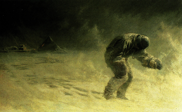 A Very Gallant Gentleman, a painting about the polar explorer Lawrence Oates (who gallantly sacrificed his own life, by walking into a blizzard in Antarctica, in order to improve the chances of survival of his colleagues.).